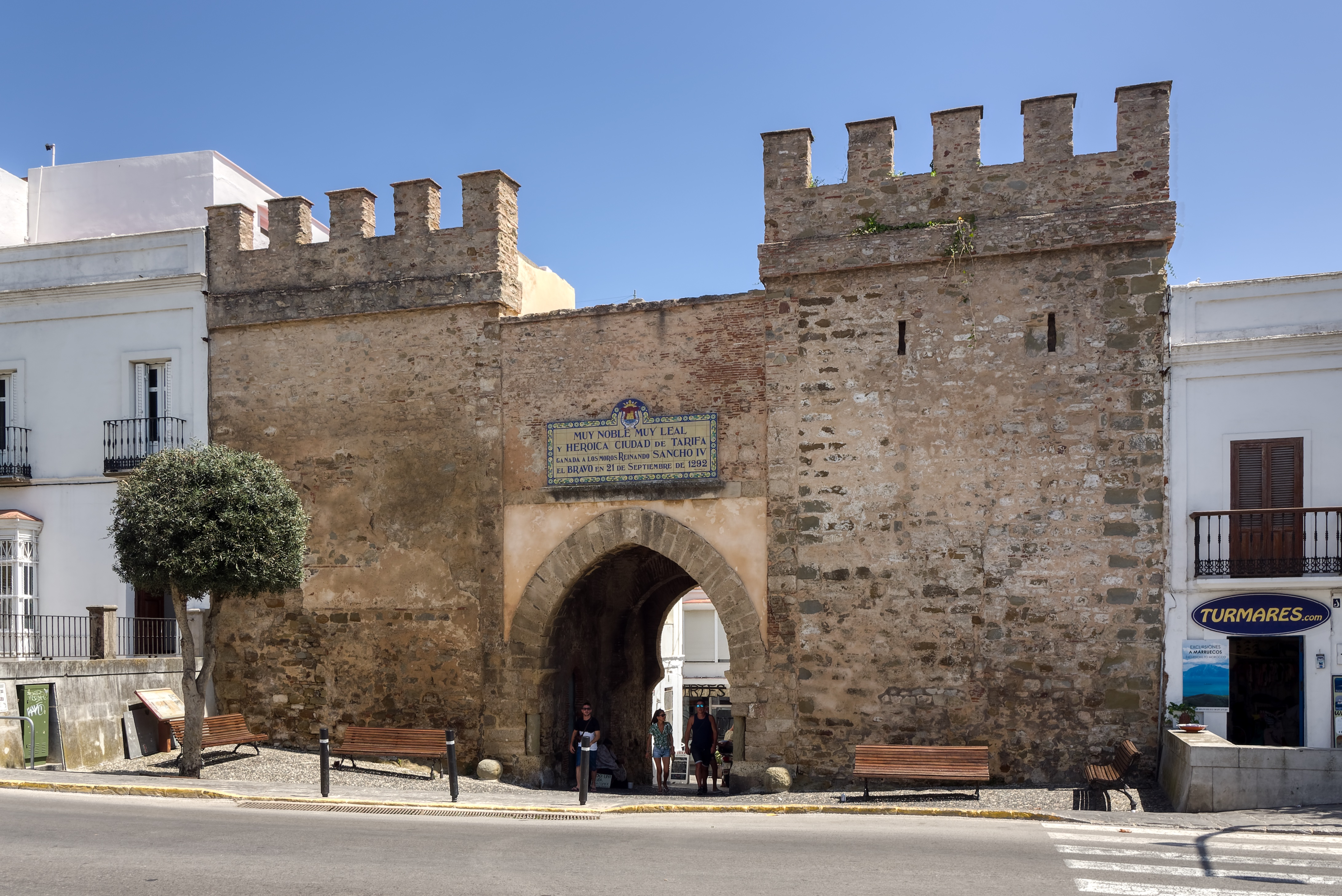 Puerto de Jerez in Tarifa